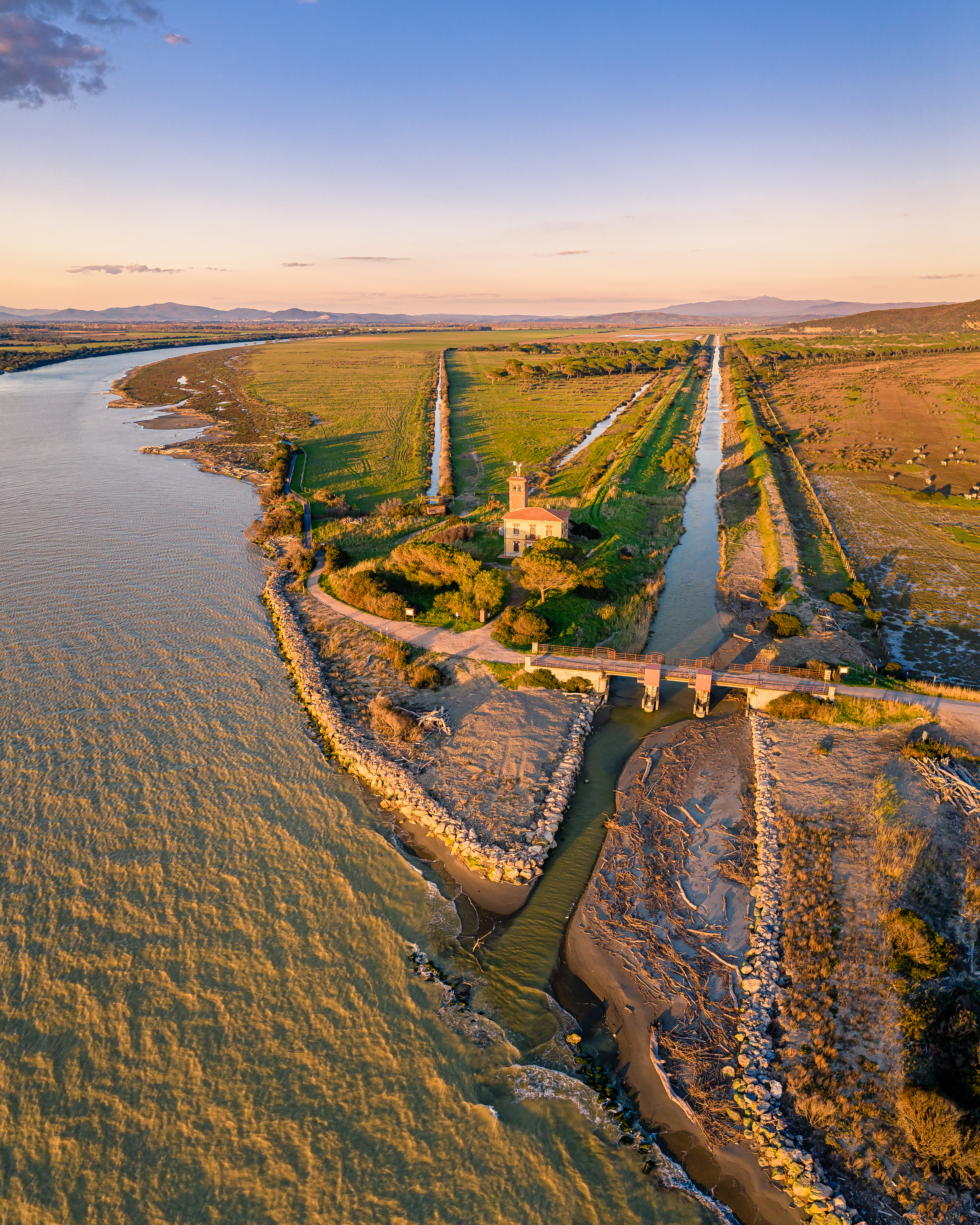 This aerial photo shows the end of the Ombrone river in the Maremma Regional Park in southern Tuscany. In the centre, the Casello idraulico.